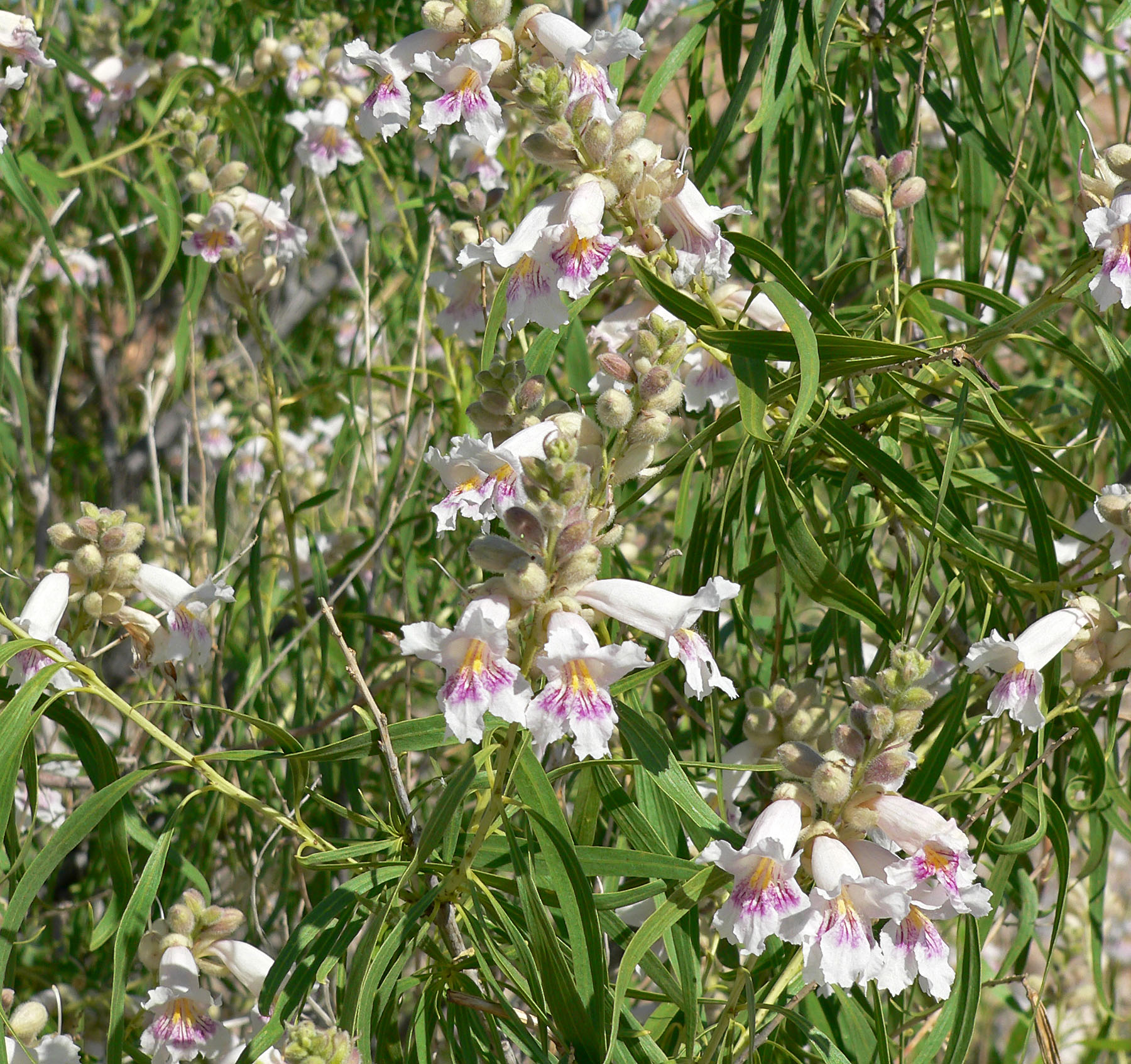 Chilopsis linearis in Calico Basin, Spring Mountains, west of Las Vegas, Nevada